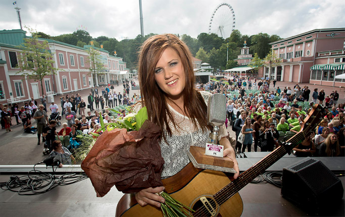 Terese Fredenwall 2012 (Winner of Top Charts Next 2012)